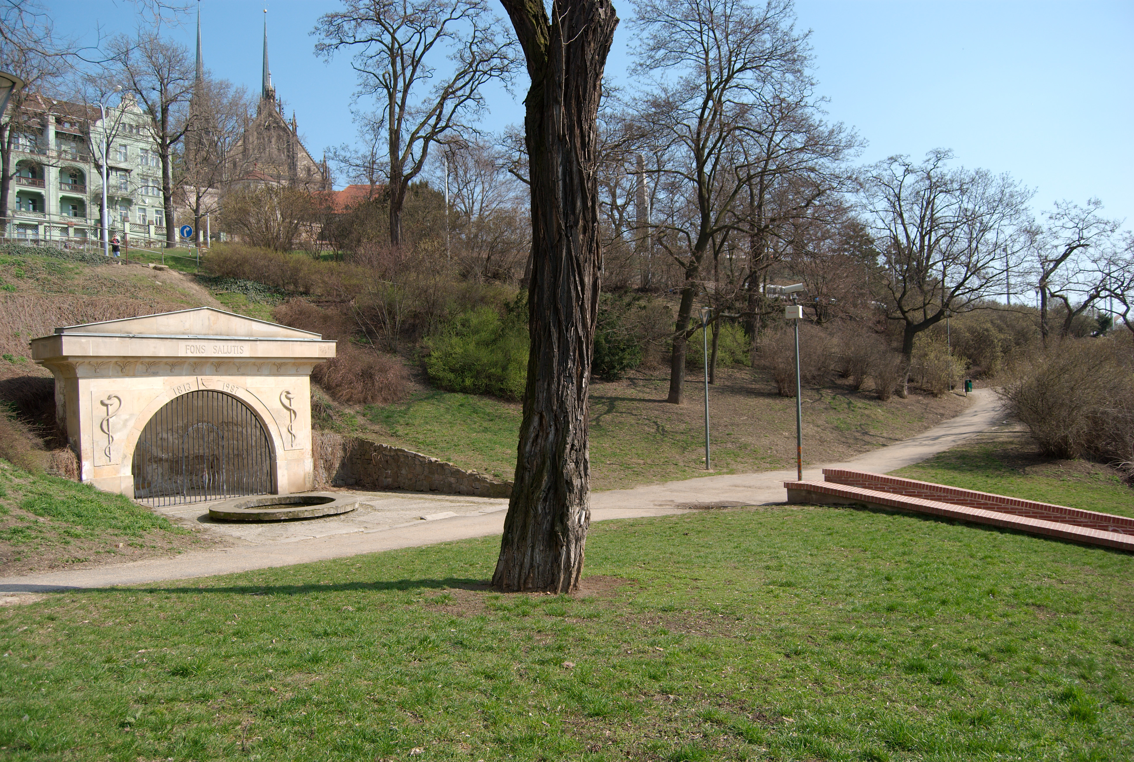 Old Brno - Park Studánka